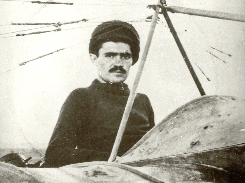 Turkish military aviator and flight teacher Fazıl Bey